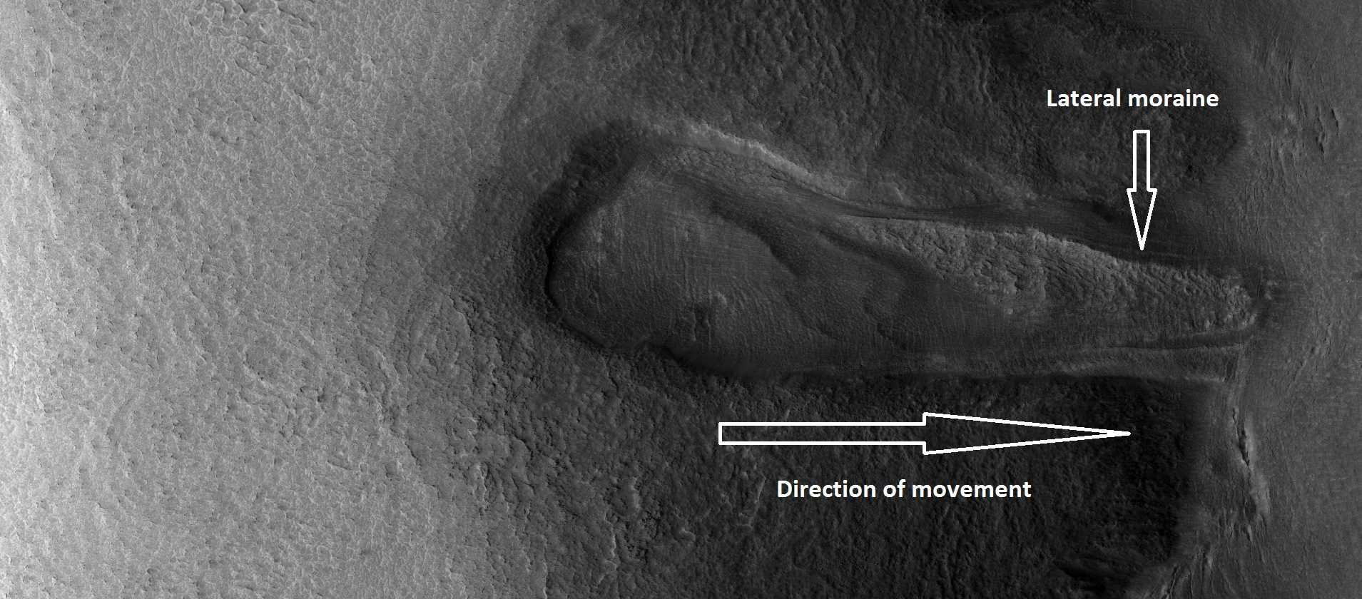 Old glacier, as seen by hirise under HiWish program. Location is 44.239 N and 28.458 E.